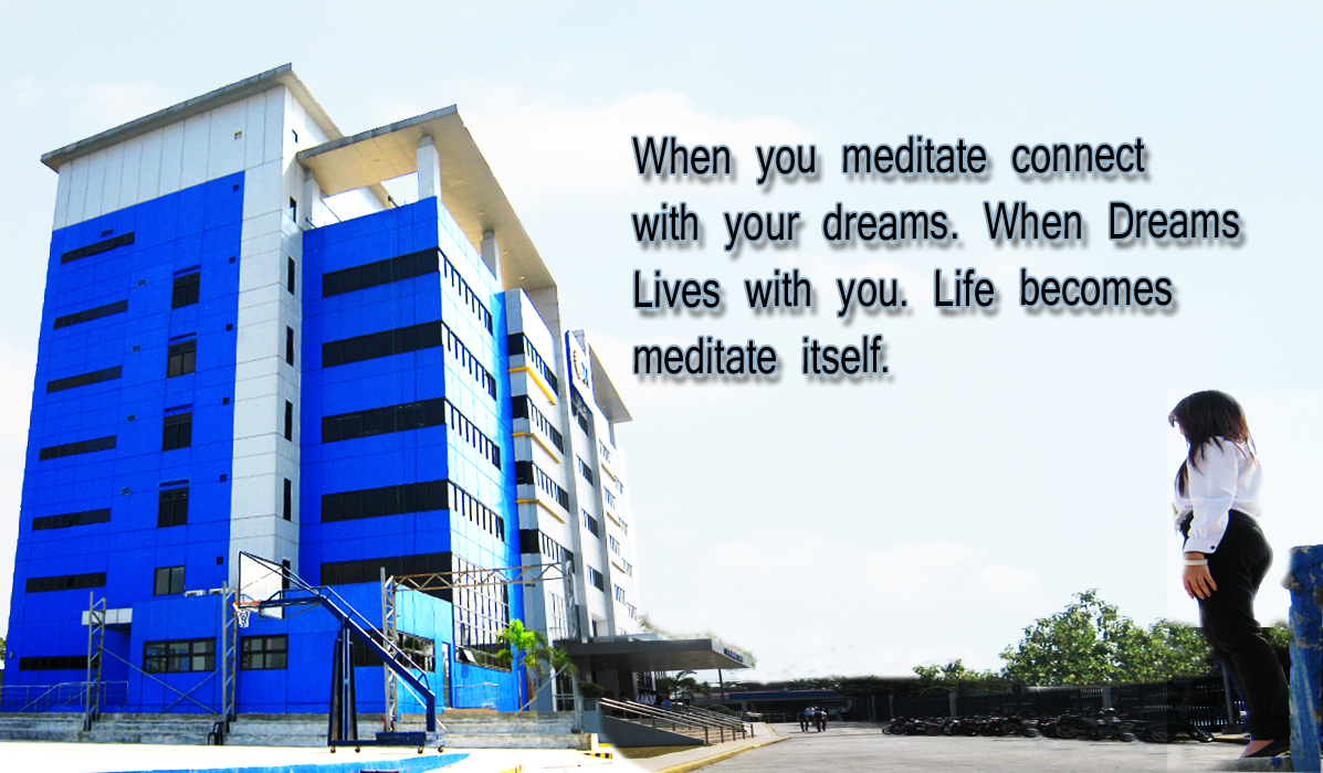 3rd place of the Photoristic Photo Editing Contest of STI Novaliches in partnership with Wikimedia Philippines.